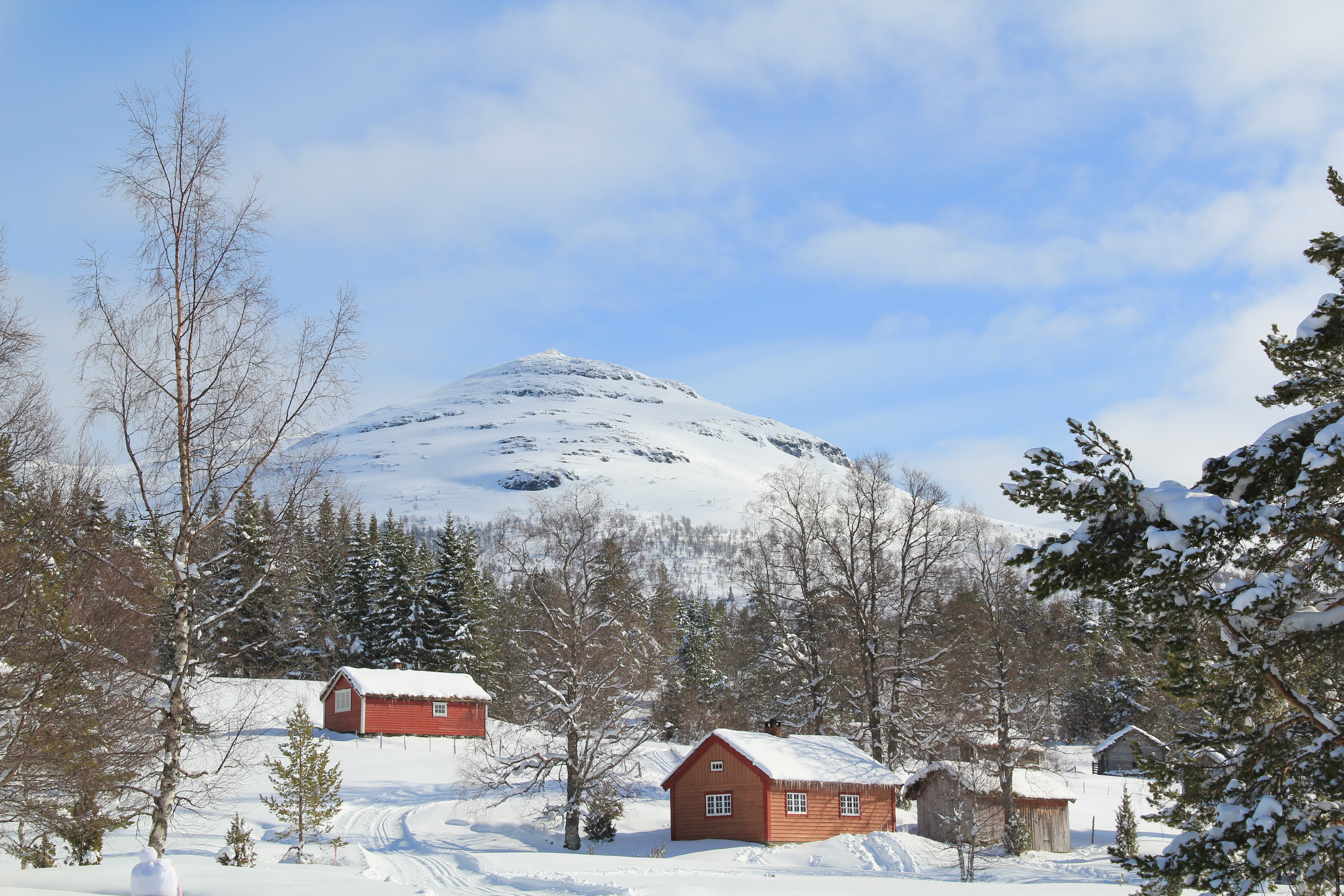 Svinestranda, mountain in Gloppen